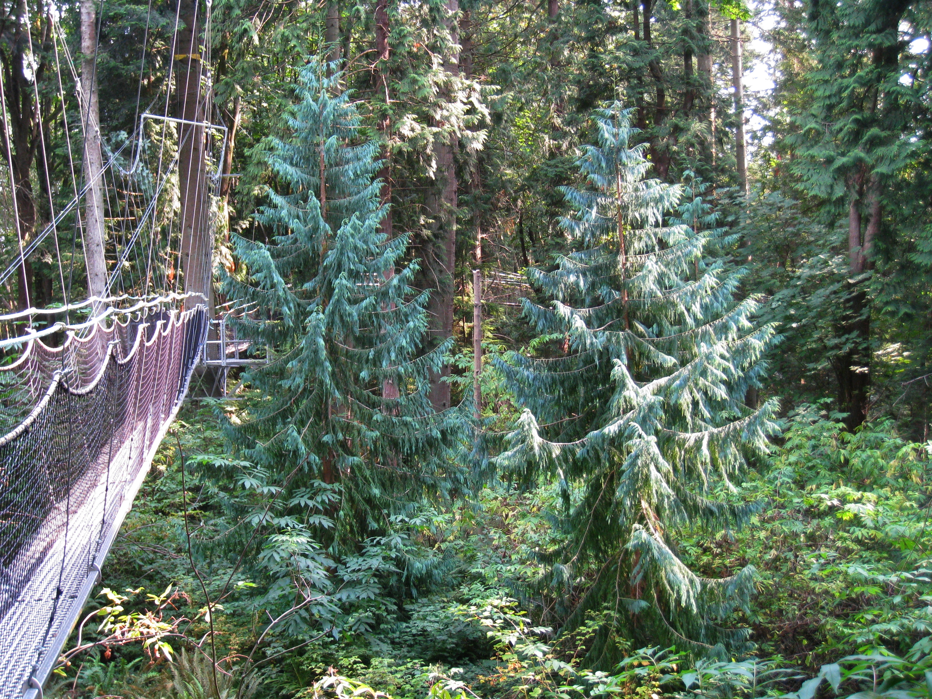 Taiwania cryptomerioides trees in UBC Botanical Garden, viewed from the Greenheart canopy walk. University of British Columbia, Canada.